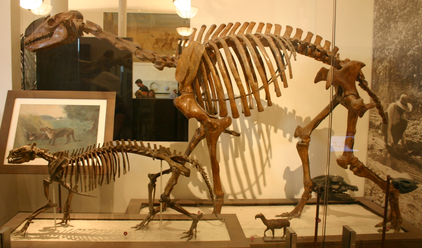 Phenacodus primaevus (near) and Macrauchenia patachonica (far)